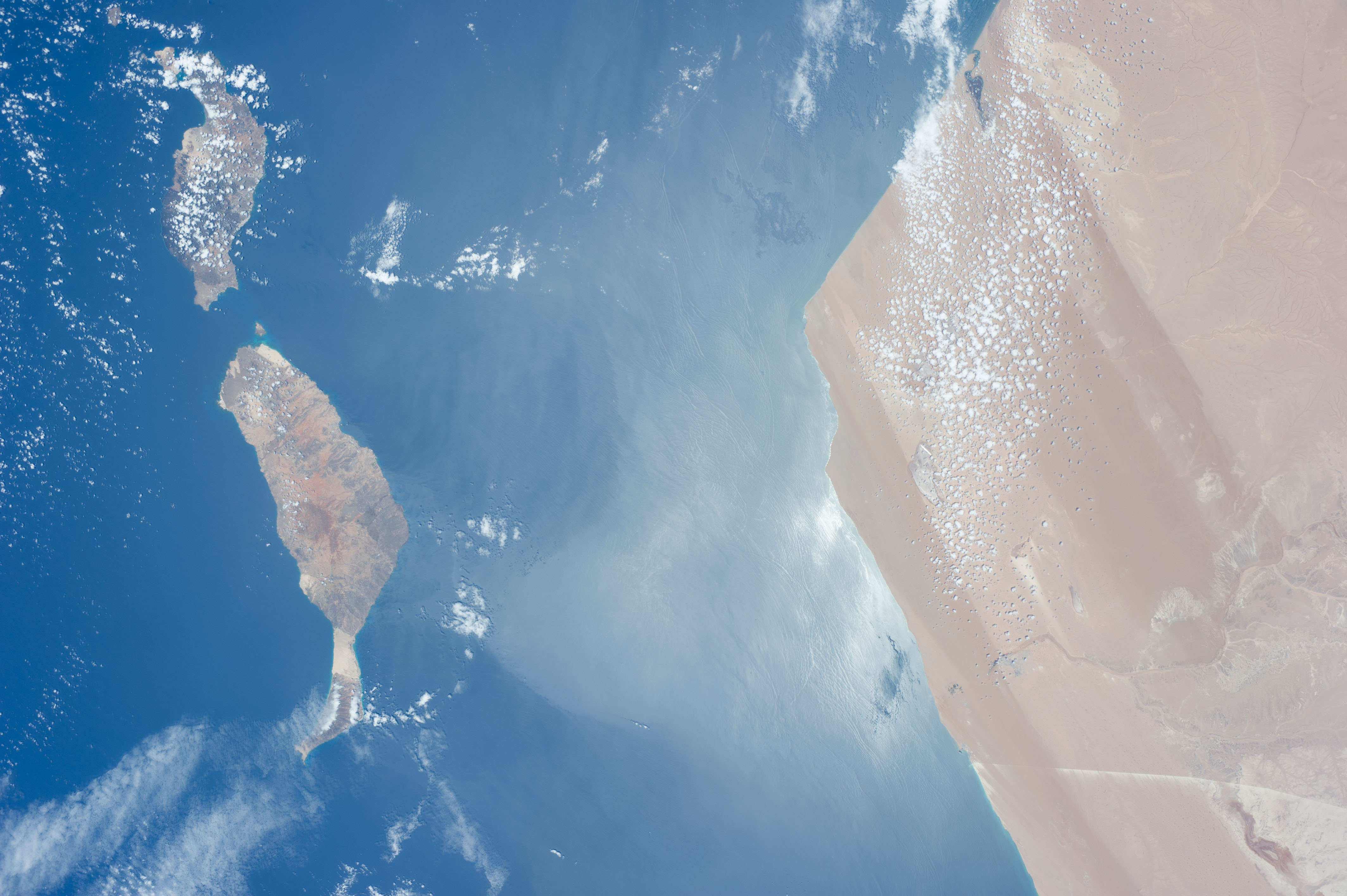 One of the Expedition 40 crew members aboard the Earth-orbiting International Space Station, flying approximately 223 nautical miles above the Atlantic Ocean photographed this image featuring the Atlantic coasts of the northwest African nation of Morocco and the disputed territory of Western Sahara. Two islands in the Canary Islands chain are pictured. Gran Canaria is just out of the frame at left.